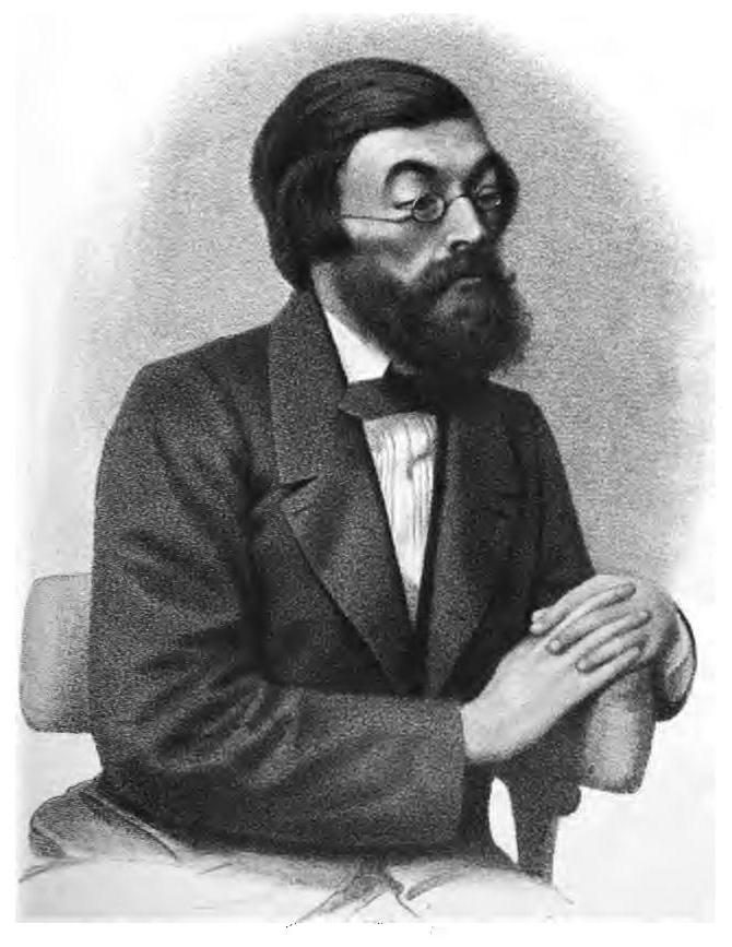 Russian writer Mikhail Illarionovich Mikhailov